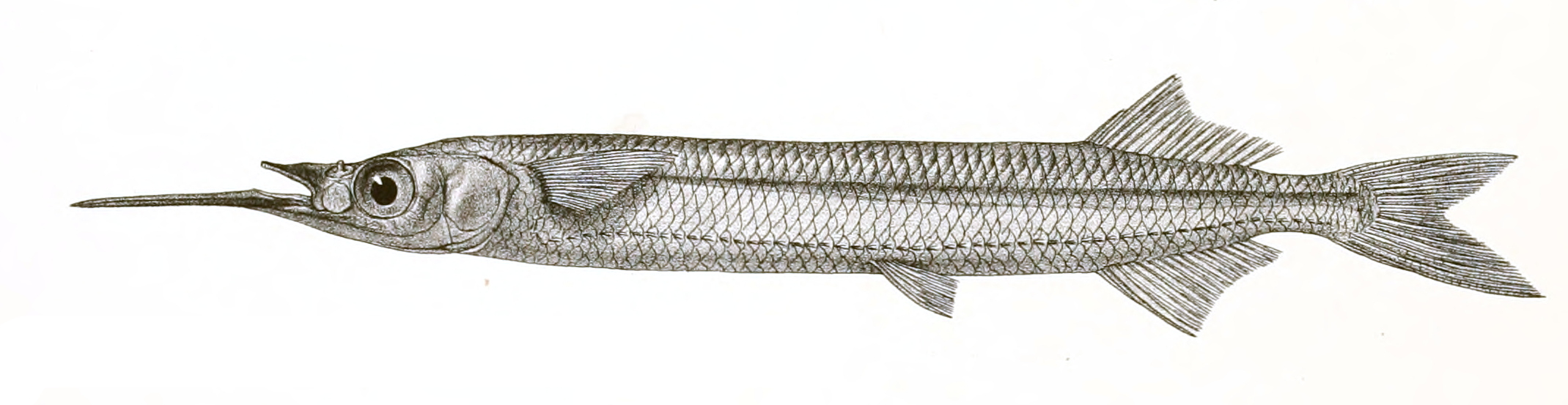 Hyporhamphus xanthopterus syn. Hemiramphus xanthopterusThe species names / identity need verification - original names from plate are included here. The original plates showed the fishes facing right and have been flipped here. Hemiramphus xanthopterus